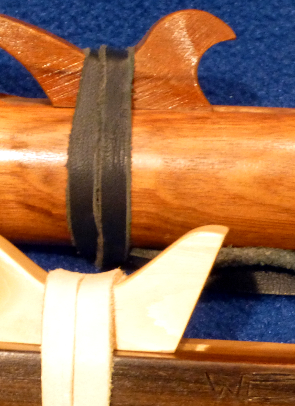 Comparison of Different Blocks on two Native American flutes.